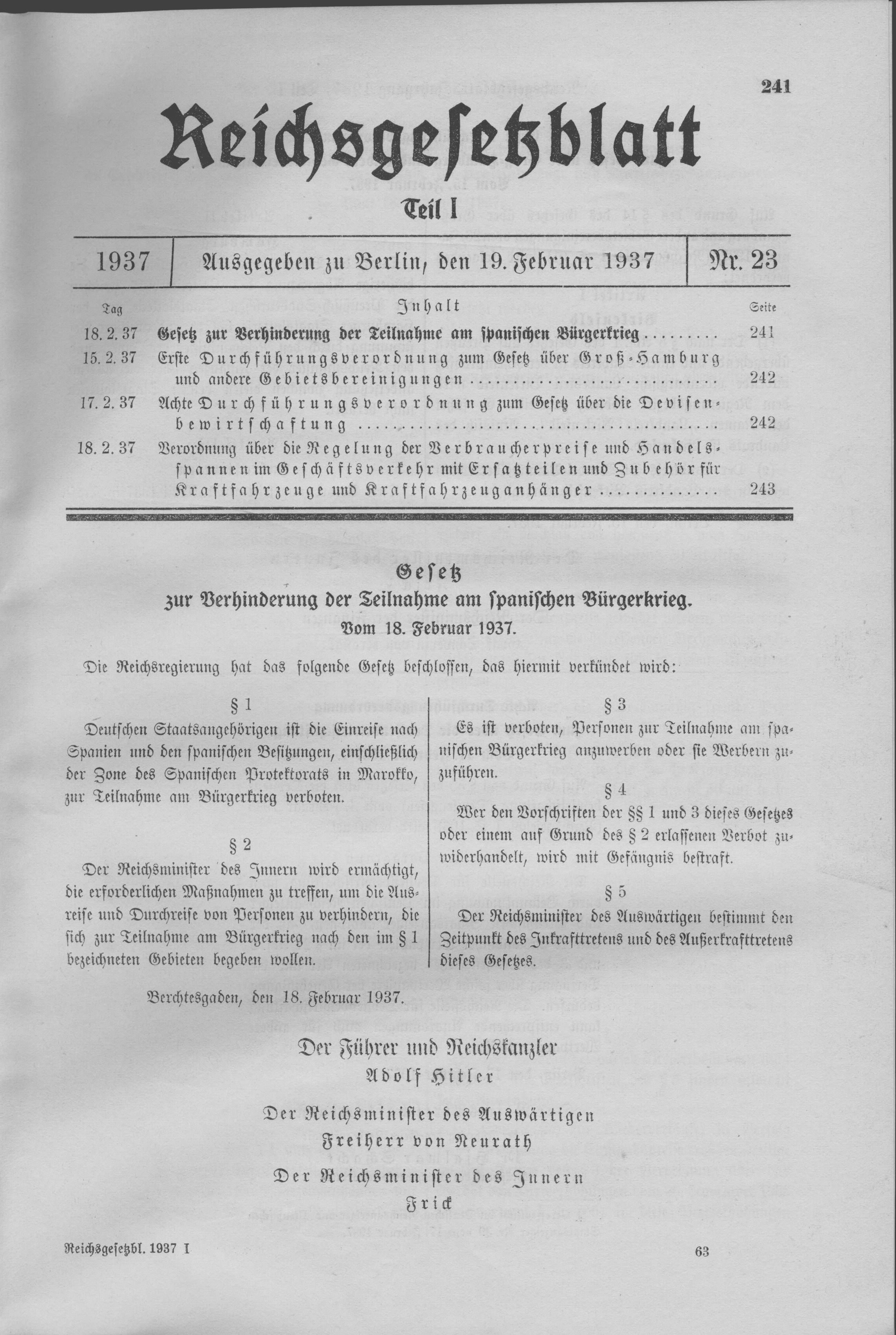 Scan from the Imperial Law Gazette of Germany, 1937, part 1